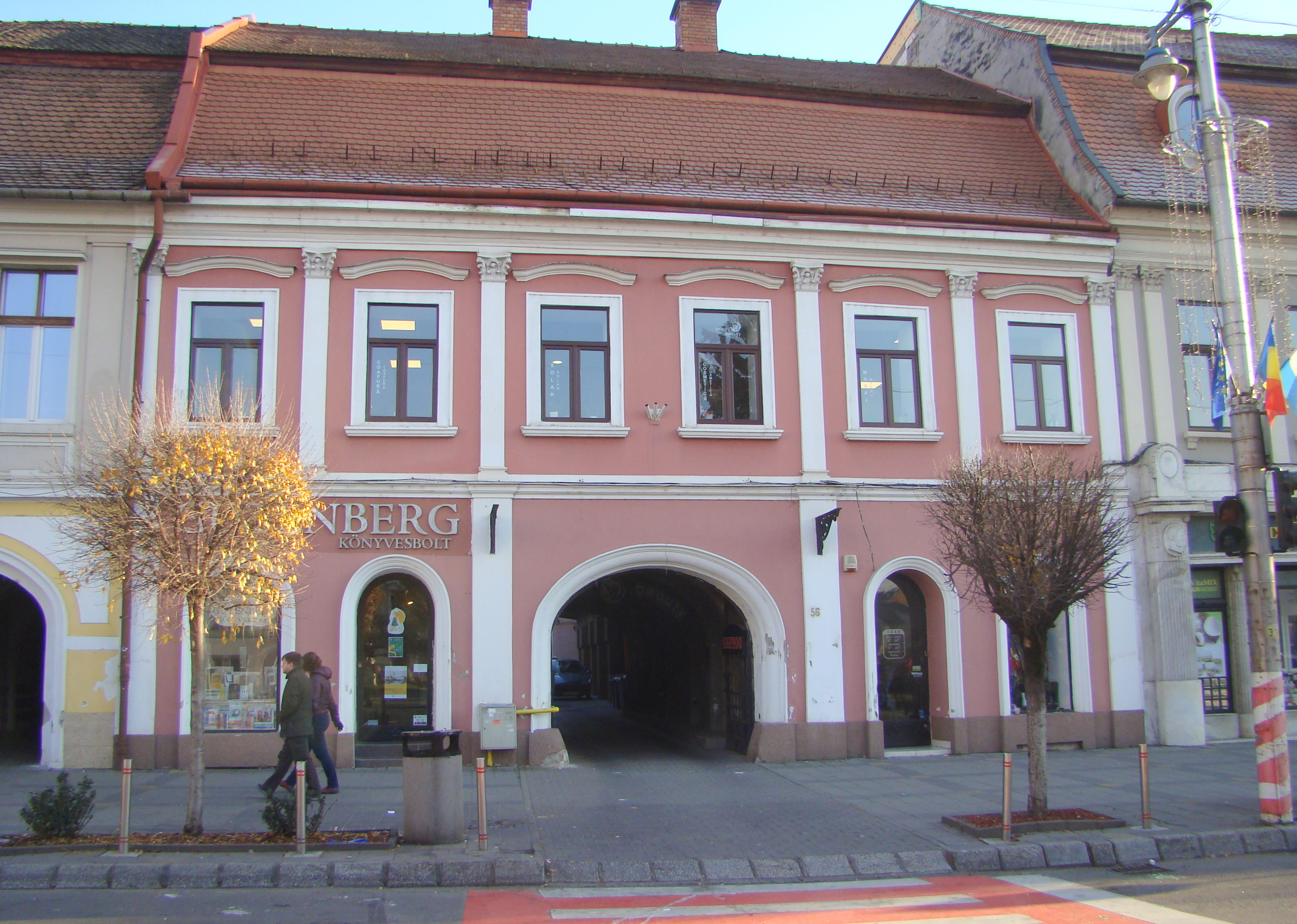 House, historic monument, in Târgu Mureș, Piața Trandafirilor 56